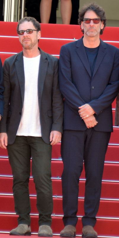 Ethan and Joel Coen at the Cannes film festival